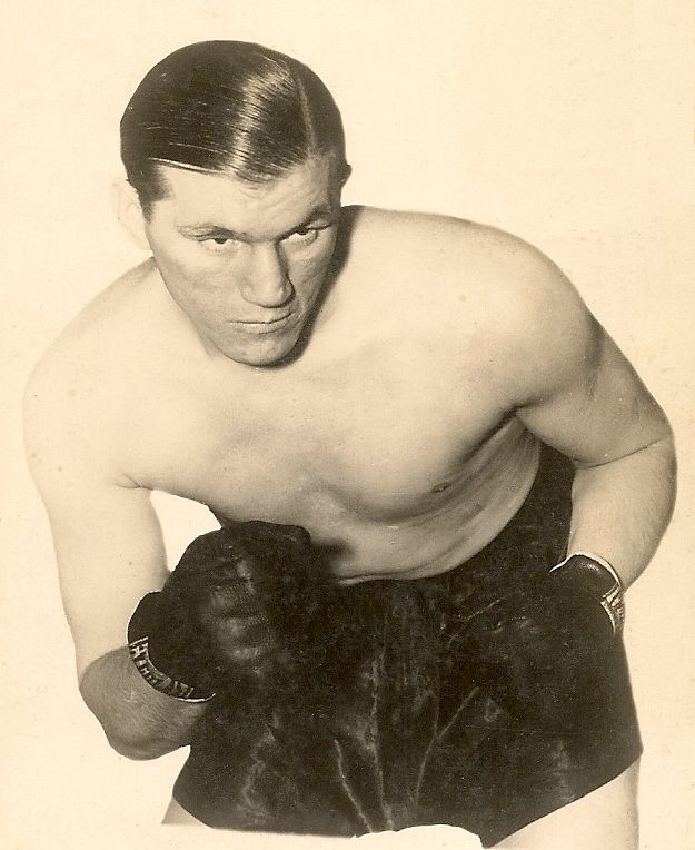 Former British and Empire heavyweight champion Tommy Farr, photograped at the height of his career in the 1930s